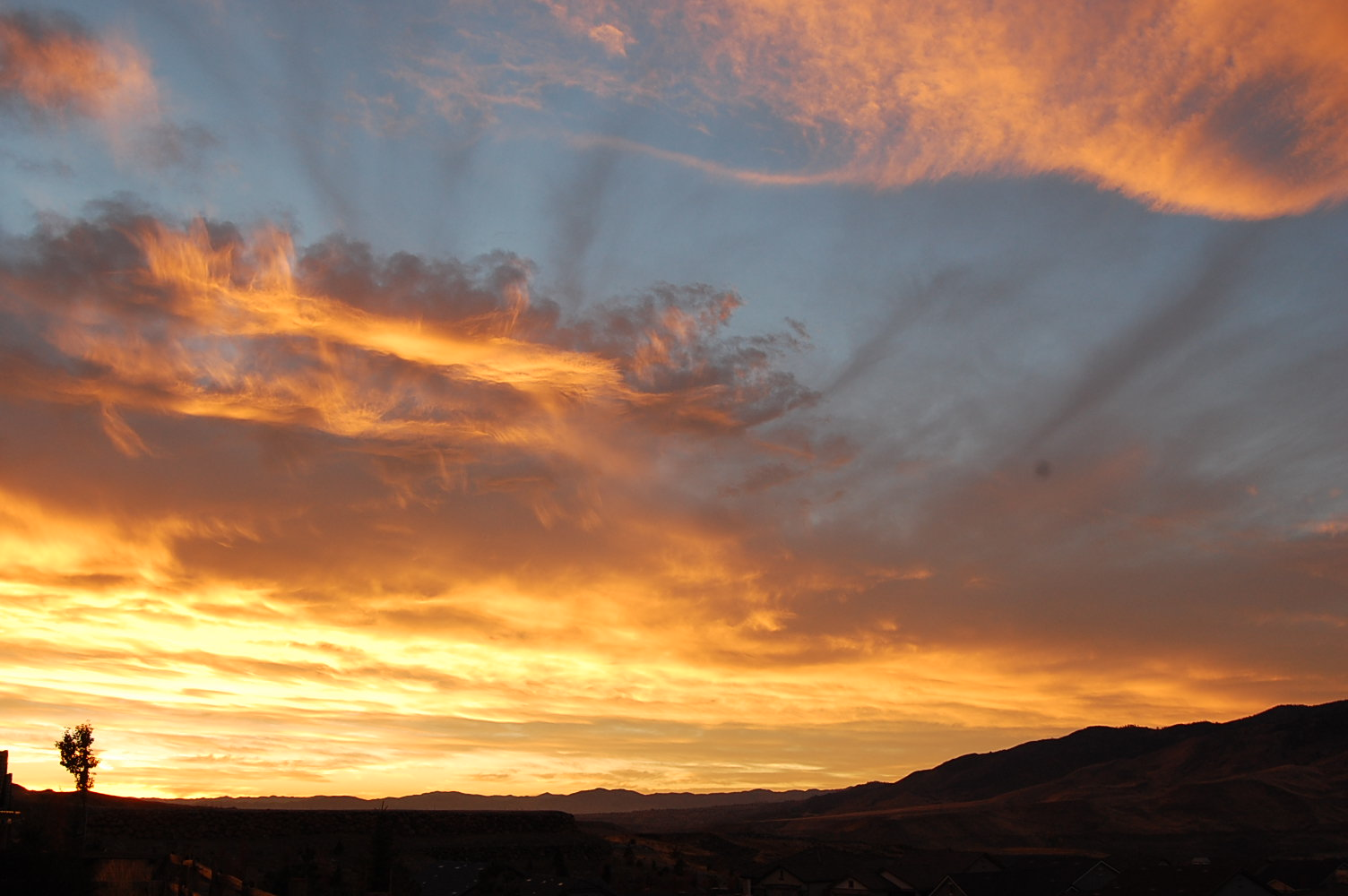 Photograph of colored clouds at sunrise over Reno, NV, US.